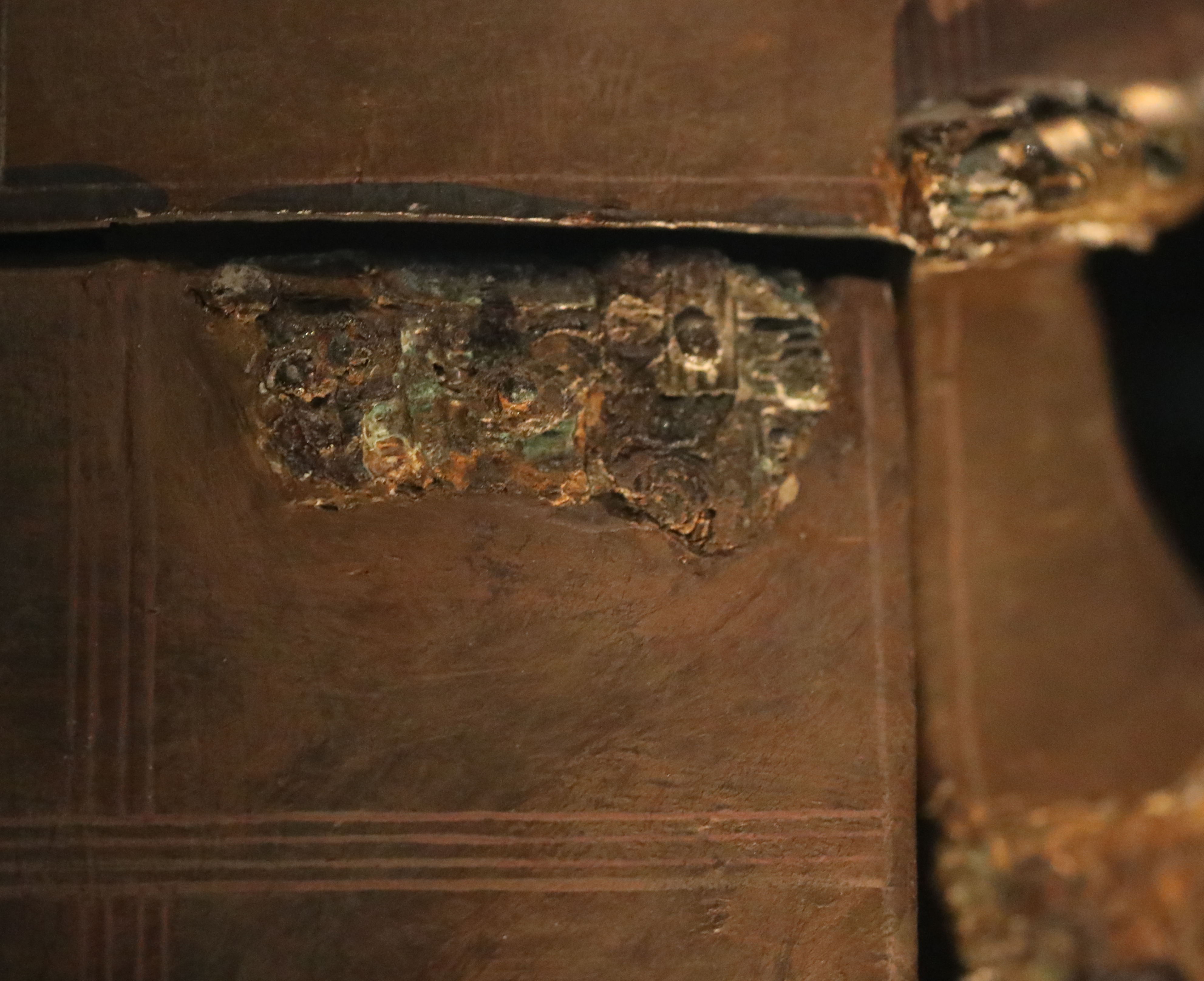 Photo of the cheek fragment of the sutton hoo helmet discovered in 1967